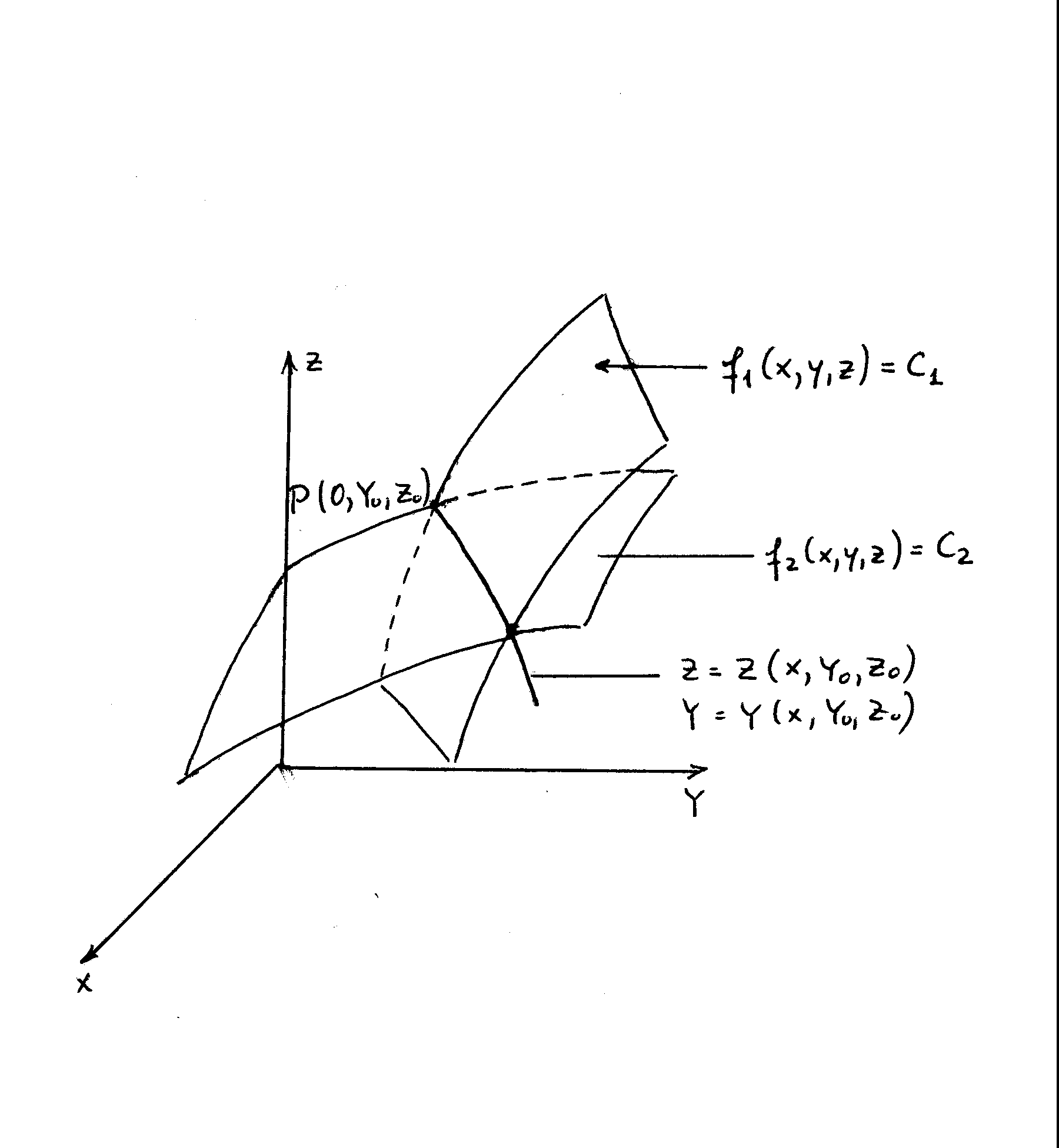 Graphical description of the integration of a system of differential forms